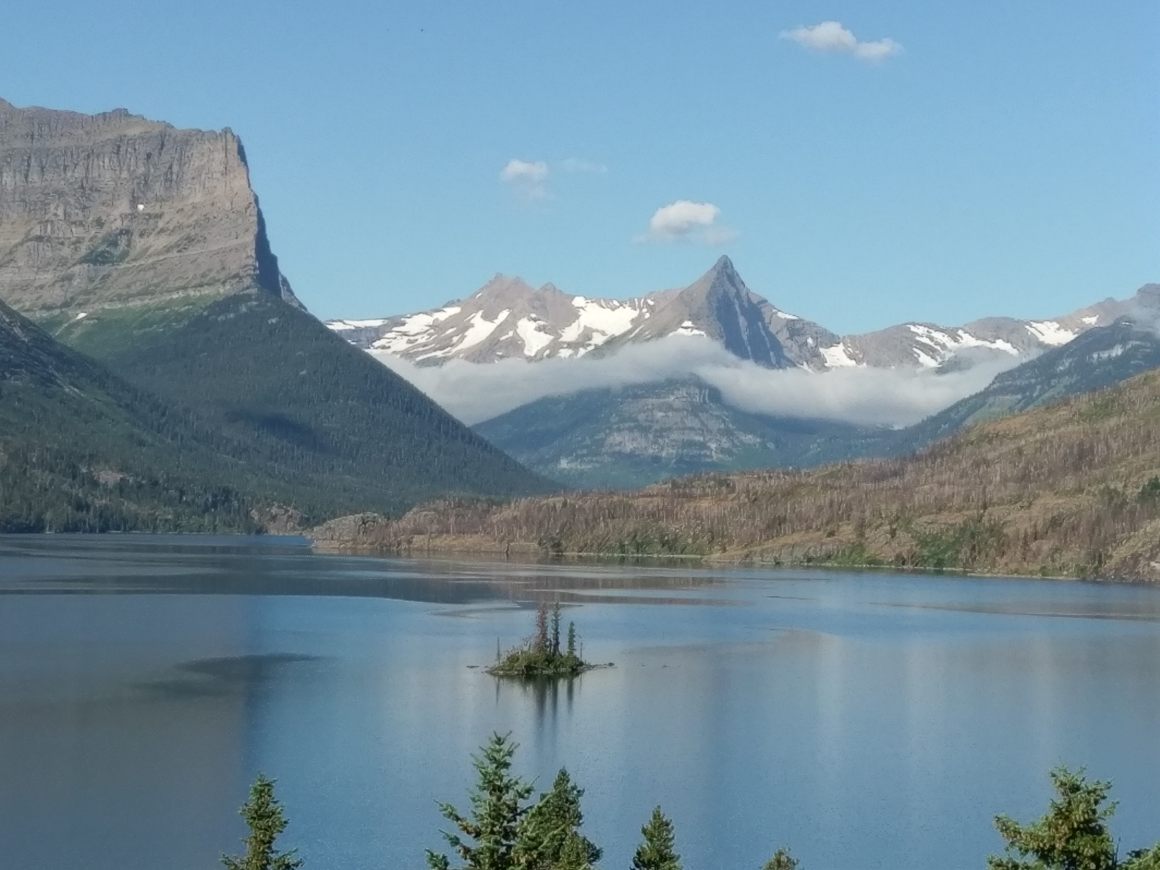 Fusillade Mountain in distance with fog below peak